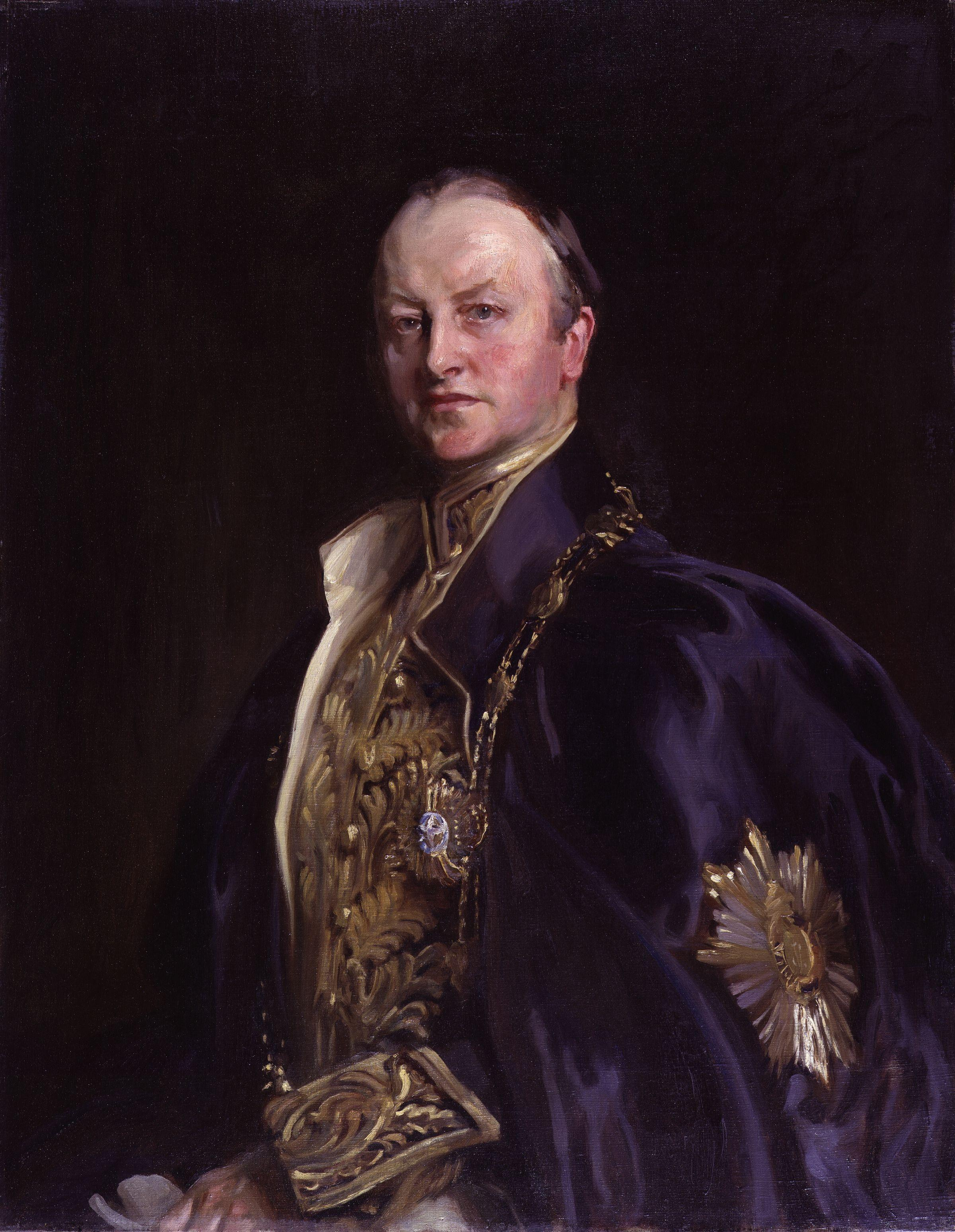 George Nathaniel Curzon, Marquess Curzon of Kedleston, by John Cooke (died 1932), given to the National Portrait Gallery, London in 1932. All images in this batch have been confirmed as author died before 1939 according to the official death date listed by the NPG.